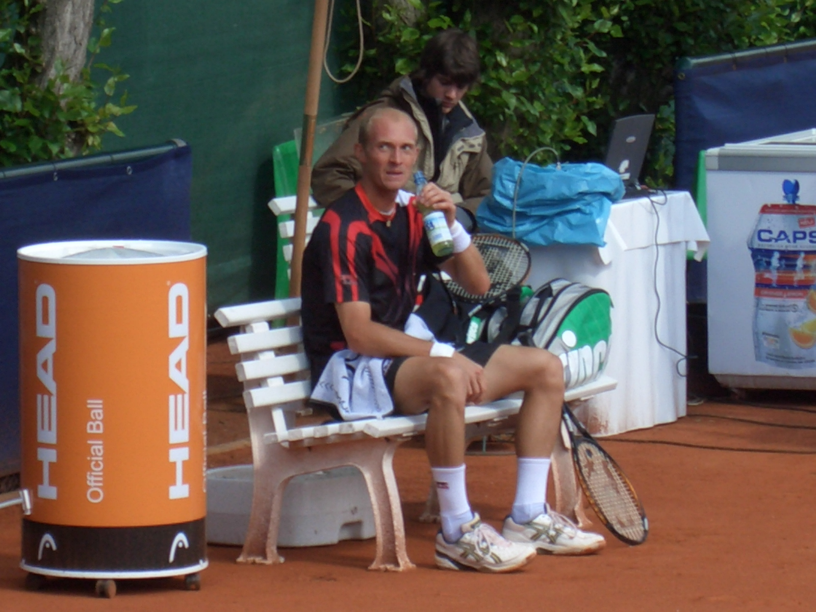 Nikolay Davydenko at the Hamburg Masters 2007